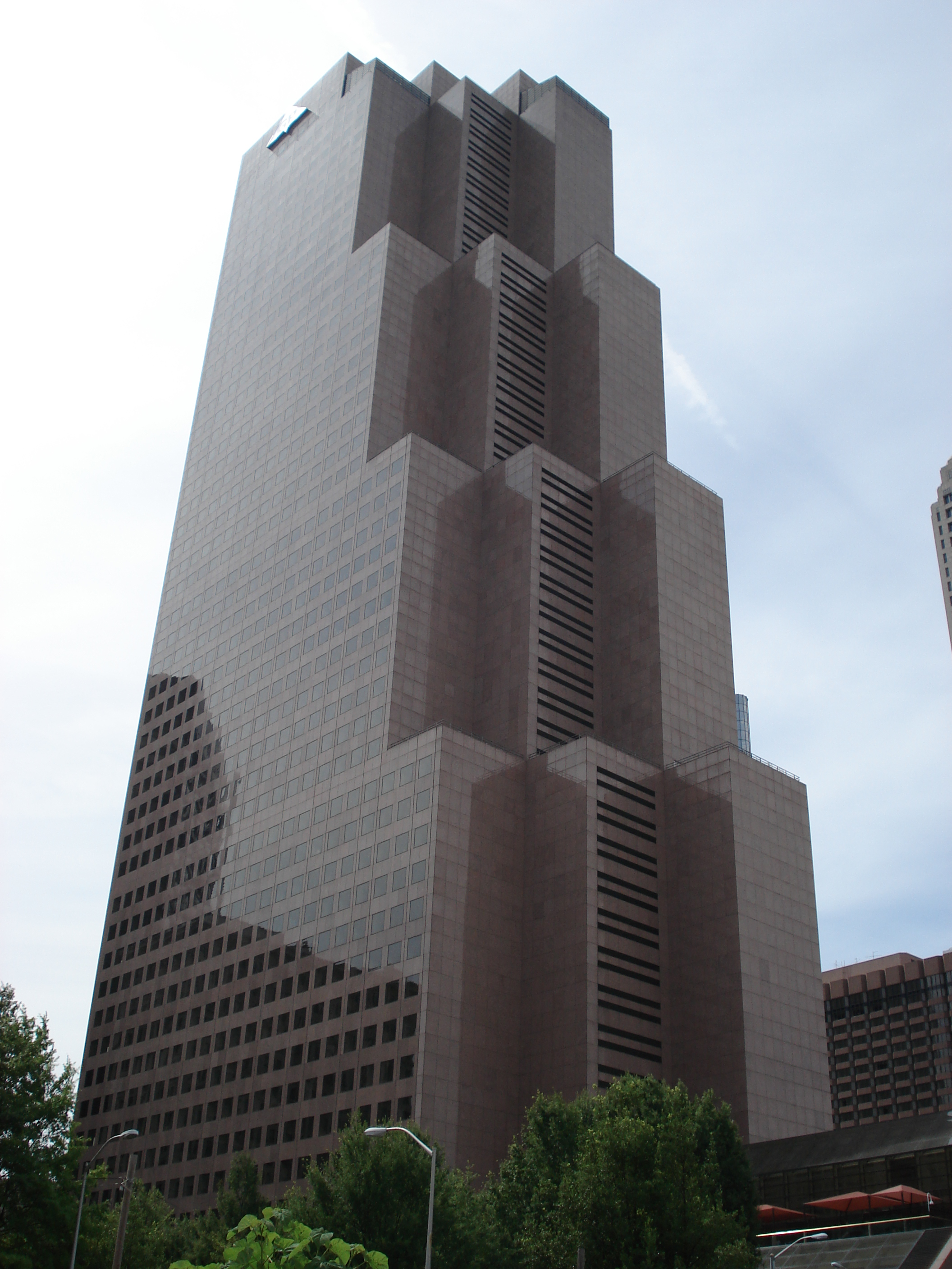 Georgia Pacific Building, Downtown Atlanta